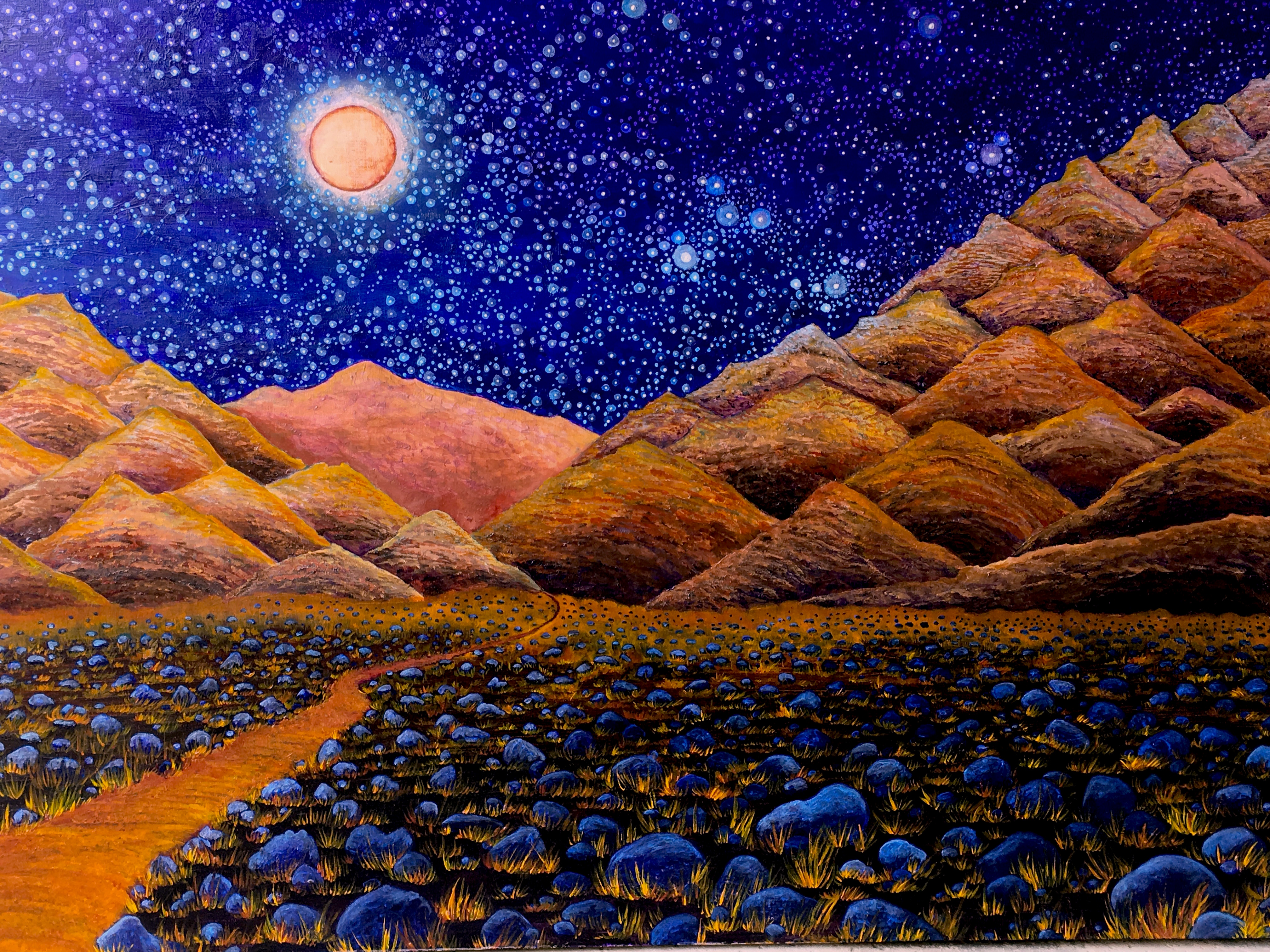 Digital photograph of an original painting by Clark Thomas Carlton painted in acrylics on canvas and inspired by the San Jacinto mountains of Palm Springs, California.